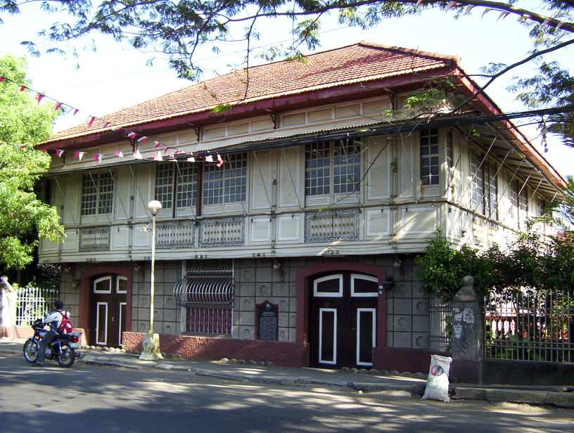 Photo of the house that served as the headquarters of the Philippine revolutionary government under General Emilio Aguinaldo, warranting the fact that Bacoor became the capital of the Philippines following the 1898 Declaration of Independence by Aguinaldo. On July 4, 1898, Bacoor became the main headquarters and capital of the Revolutionary government. The residence of Juan Cuenca and Candida Chaves in Digman was the First Malacañang of the Republic of the Philippines. It is located along General Evangelista Street in Barangay Digman, Bacoor. User reyrefran contributed to this.